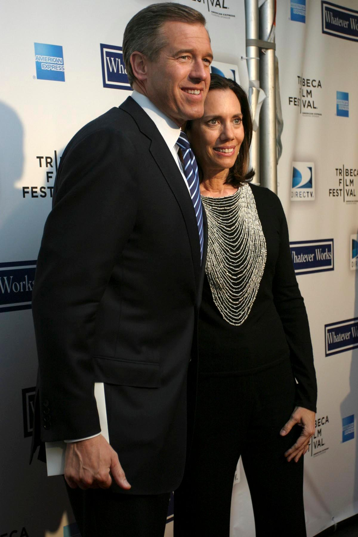 Brian Williams and Jane Williams – Tribeca Film Festival "Whatever Works" Premiere.